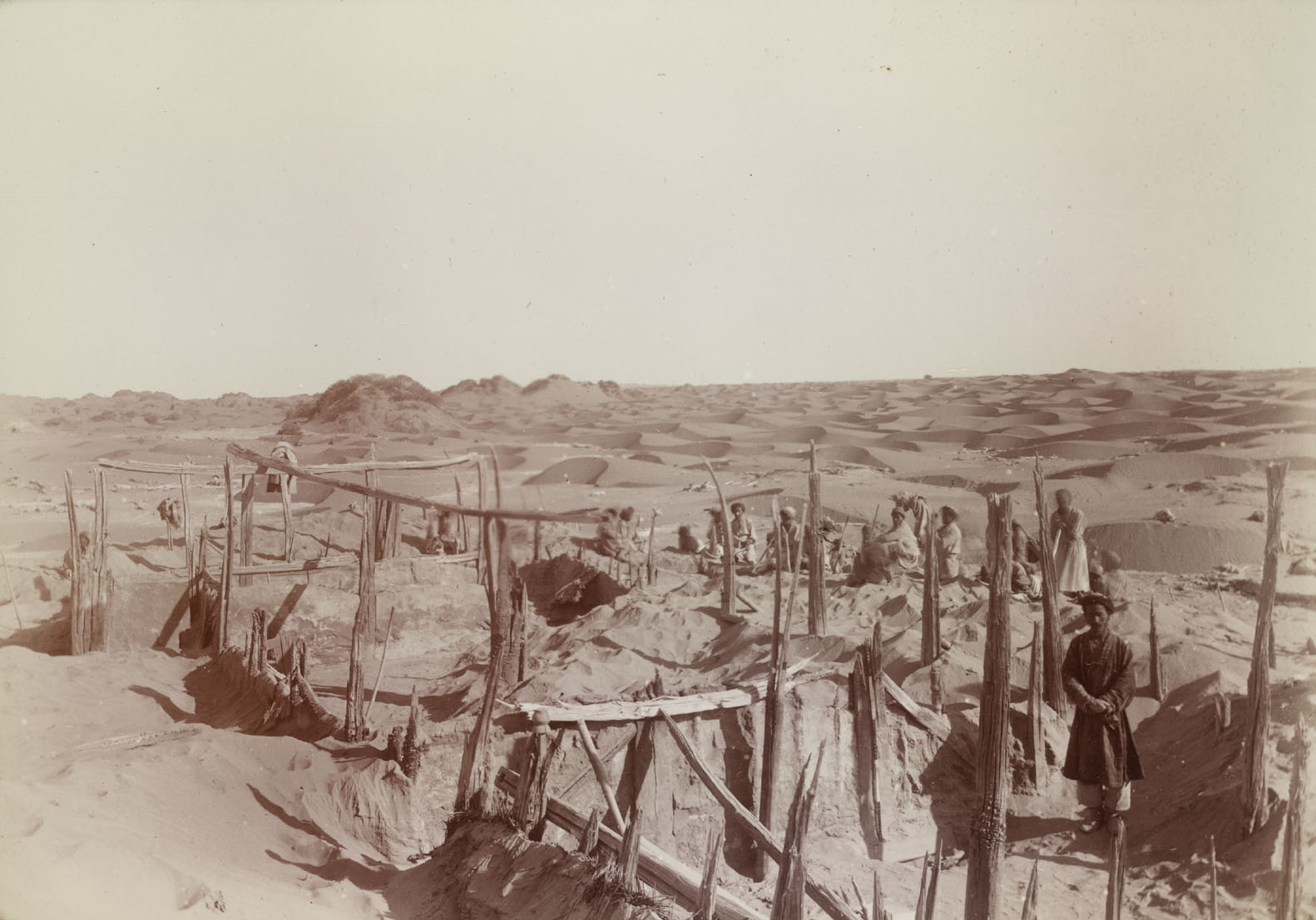 Ruin of house N.XXIV. at Niya at spot where archive discovered, October 1906.